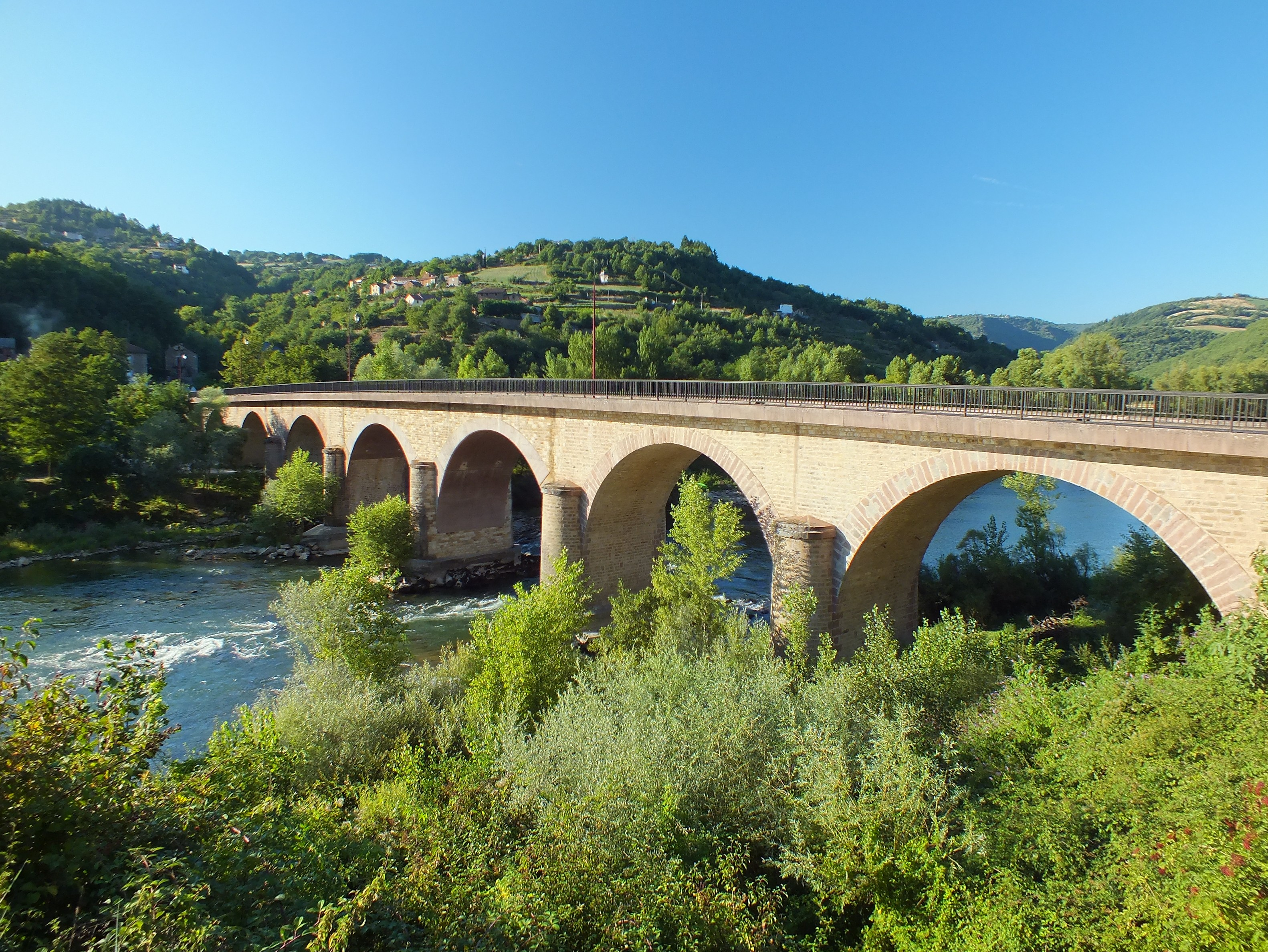 The Pont de Navech crosses the River Tarn near 12370 Broquiès in Aveyron. The first bridge was built in 1865- to replace a ferry. In 1875 and again in 1982 the centre arches were breached by the 'crues' and the bridge rebuilt.